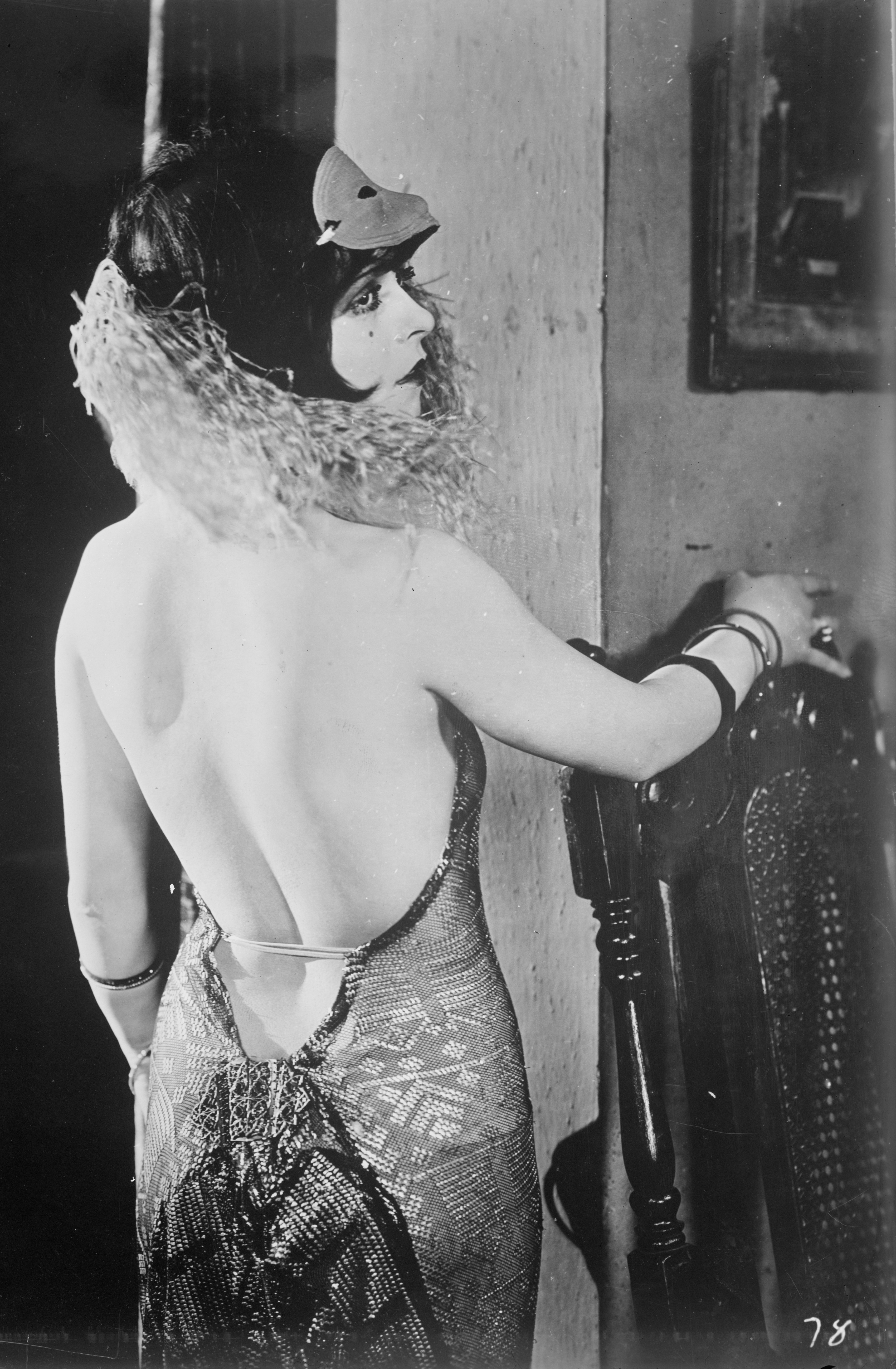 TITLE: Clara Bow, half-length portrait, standing, facing right, in backless costume CALL NUMBER: LC-B2- 6486-3[P&P] REPRODUCTION NUMBER: LC-DIG-ggbain-38839 (digital file from original negative) RIGHTS INFORMATION: No known restrictions on publication. MEDIUM: 1 negative : glass ; 5 x 7 in. or smaller. CREATED/PUBLISHED: [no date recorded on caption card] CREATOR: Bain News Service, publisher. NOTES: Title from unverified data provided by the Bain News Service on the negatives or caption cards. Forms part of: George Grantham Bain Collection (Library of Congress). General information about the Bain Collection is available at Temp. note: Batch eight loaded. FORMAT: Glass negatives. REPOSITORY: Library of Congress Prints and Photographs Division Washington, D.C. 20540 USA DIGITAL ID: (digital file from original neg.) ggbain 38839 CARD #: ggb2006014244